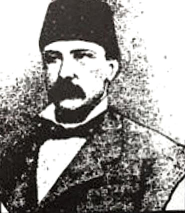 cropped, enlarged and retouched lithograph of Theodoros Kasapis - Teodor Kasap (1835-1905) Ottoman Satirist of Greek origin from Kayseri